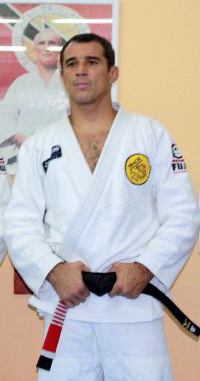 A photo of Royler Gracie, taken at student Moshe Kaitz's Dojo.